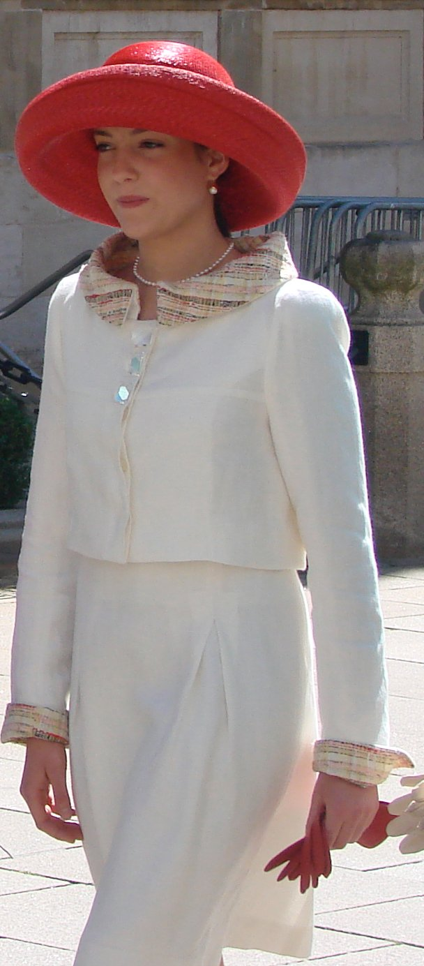 Alexandra of Luxembourg on national day, 2008.